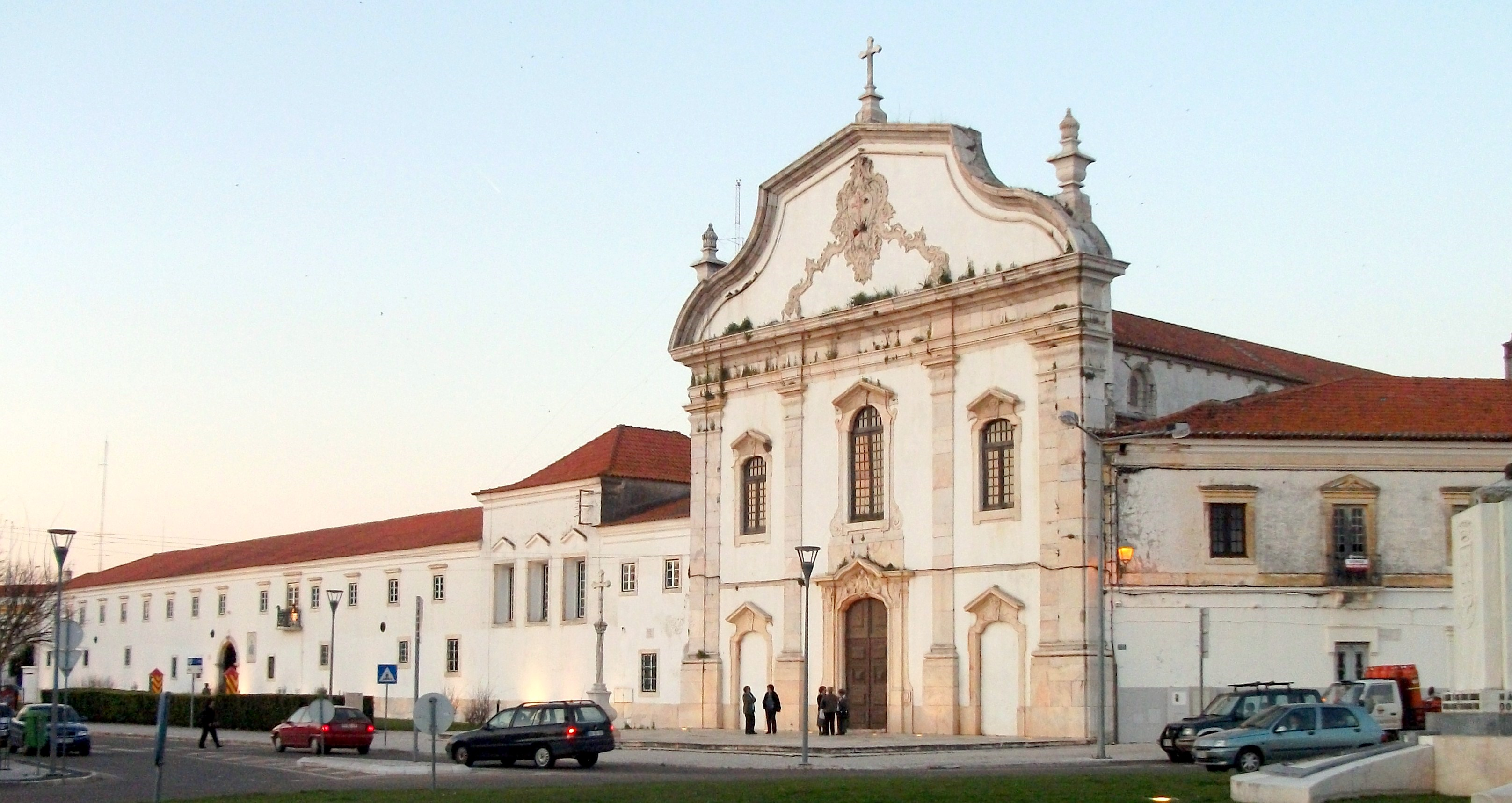 San Francisco abbey and church, Estremoz, Évora, Portugal